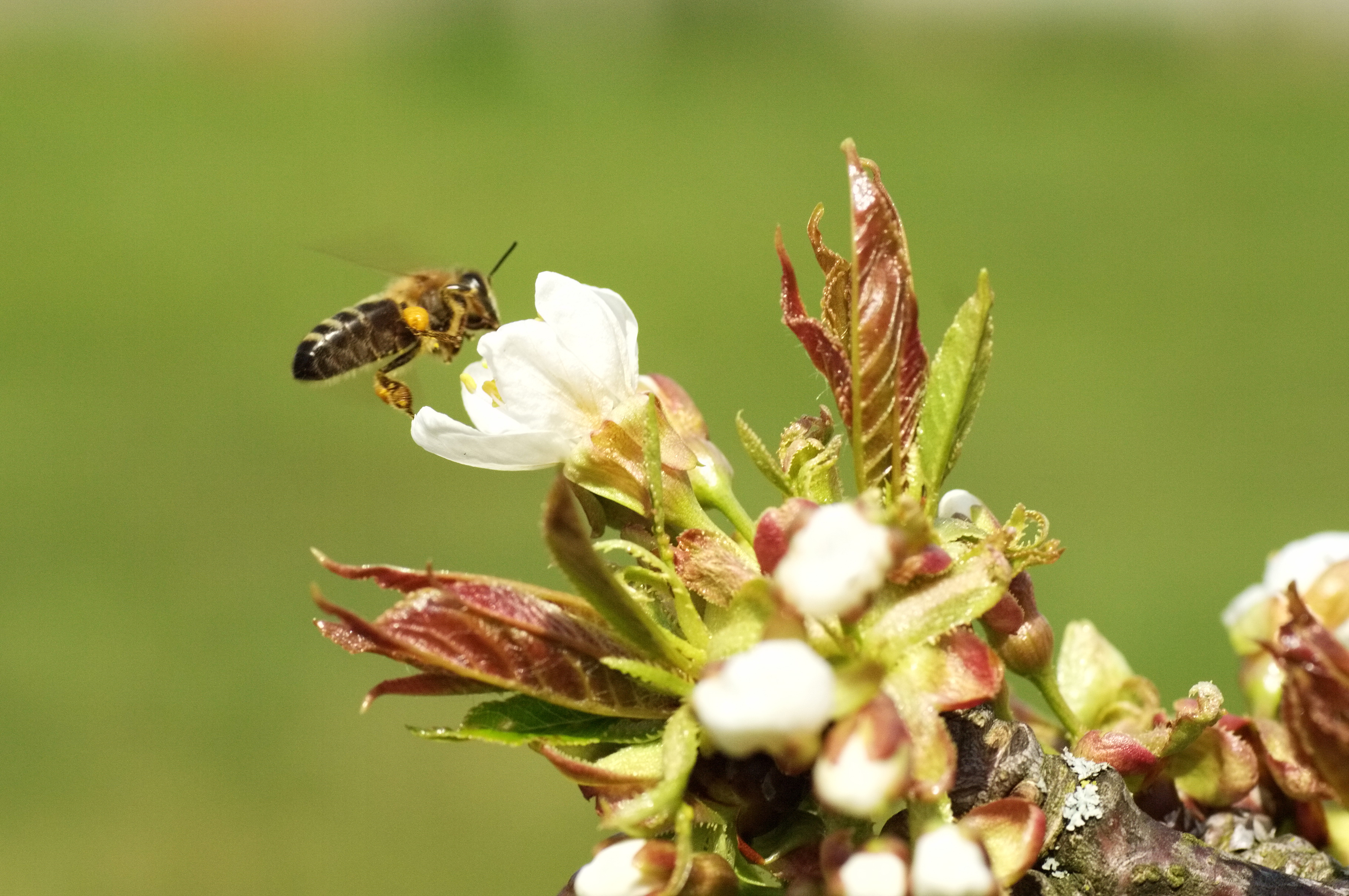 Western honey bee collecting pollen from an apple flower